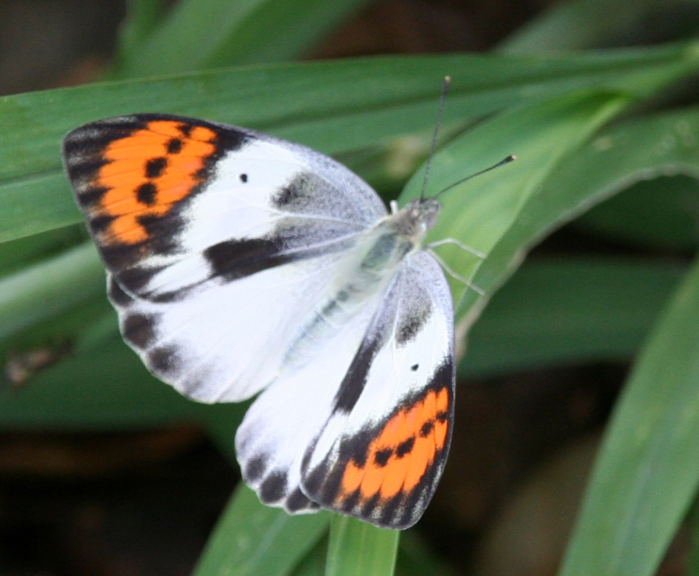 A female Purple tip